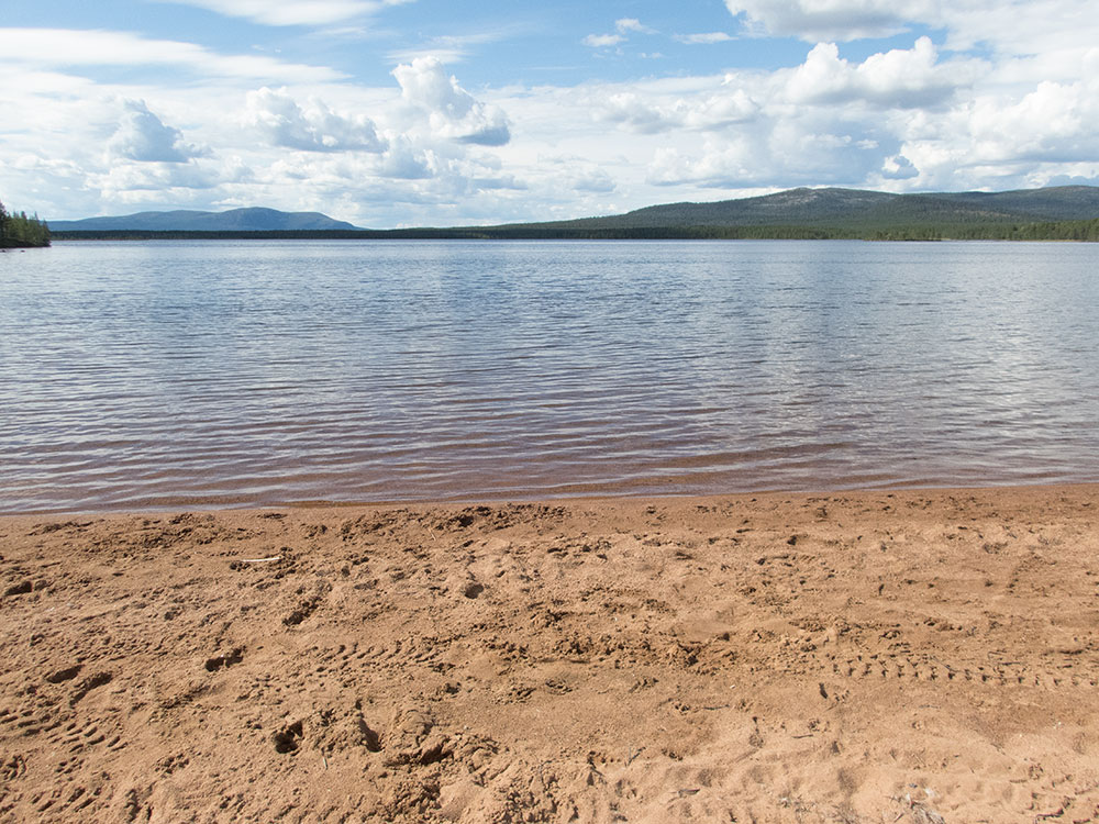 Lake Gittunjávrre in Arjeplog Municipality.